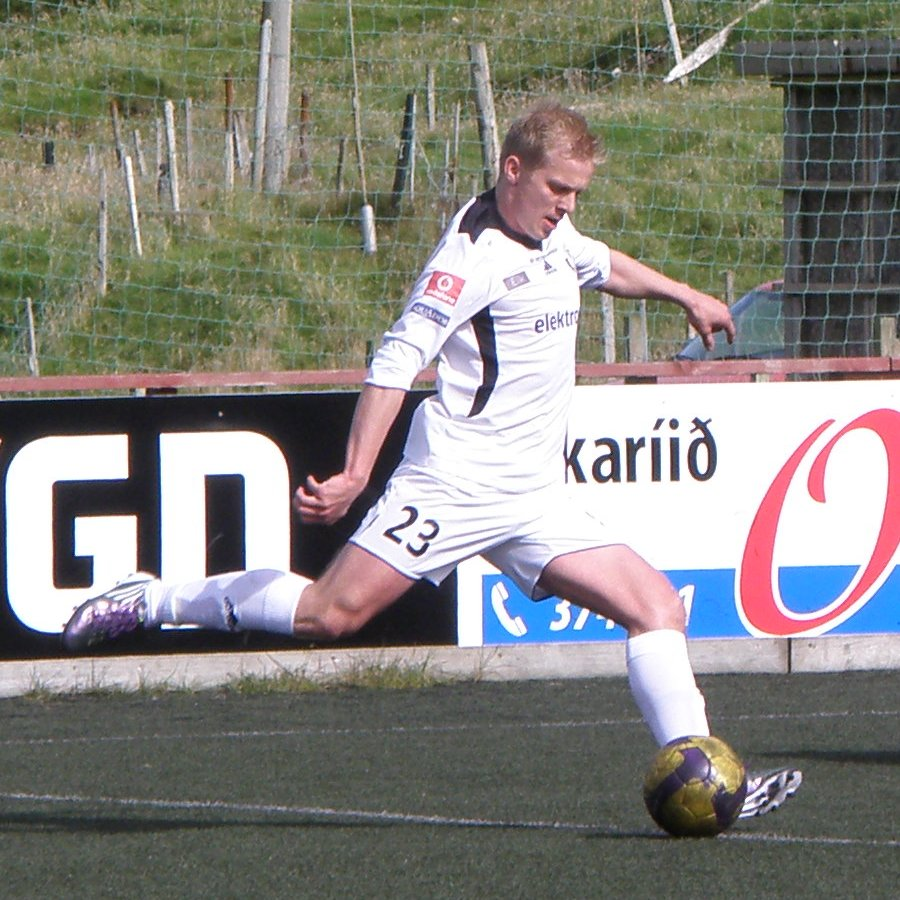 Hjalgrím Elttør is a Faroese football player, a striker, who currently (2010) plays for B36 Tórshavn. He is also a Faroe Islands national team player. He has earlier played for KÍ Klaksvík, Fremad Amager (DK) and for NSÍ Runavík. This photo was taken in Vágur in the match against FC Suðuroy on 22 August 2010. Føroyskt: Hjalgrím Elttør er føroyskur fótbóltsleikari, áleypsleikari. Hann spælir við B36 nú (2010). Hann hevur spælt 13 dystir fyri føroyska A-landsliðið. Hjalgrím hevur fyrr spælt við KÍ og NSÍ úr Føroyum og Fremad Amager úr Danmark. Eitt skifti var hann útlántur til Aston Villa til royndarvenjing. Henda myndin varð tikin tá B36 (Vodafonedeildin) spældi móti FC Suðuroy suðuri í Vági, vesturi á Eiðinum.